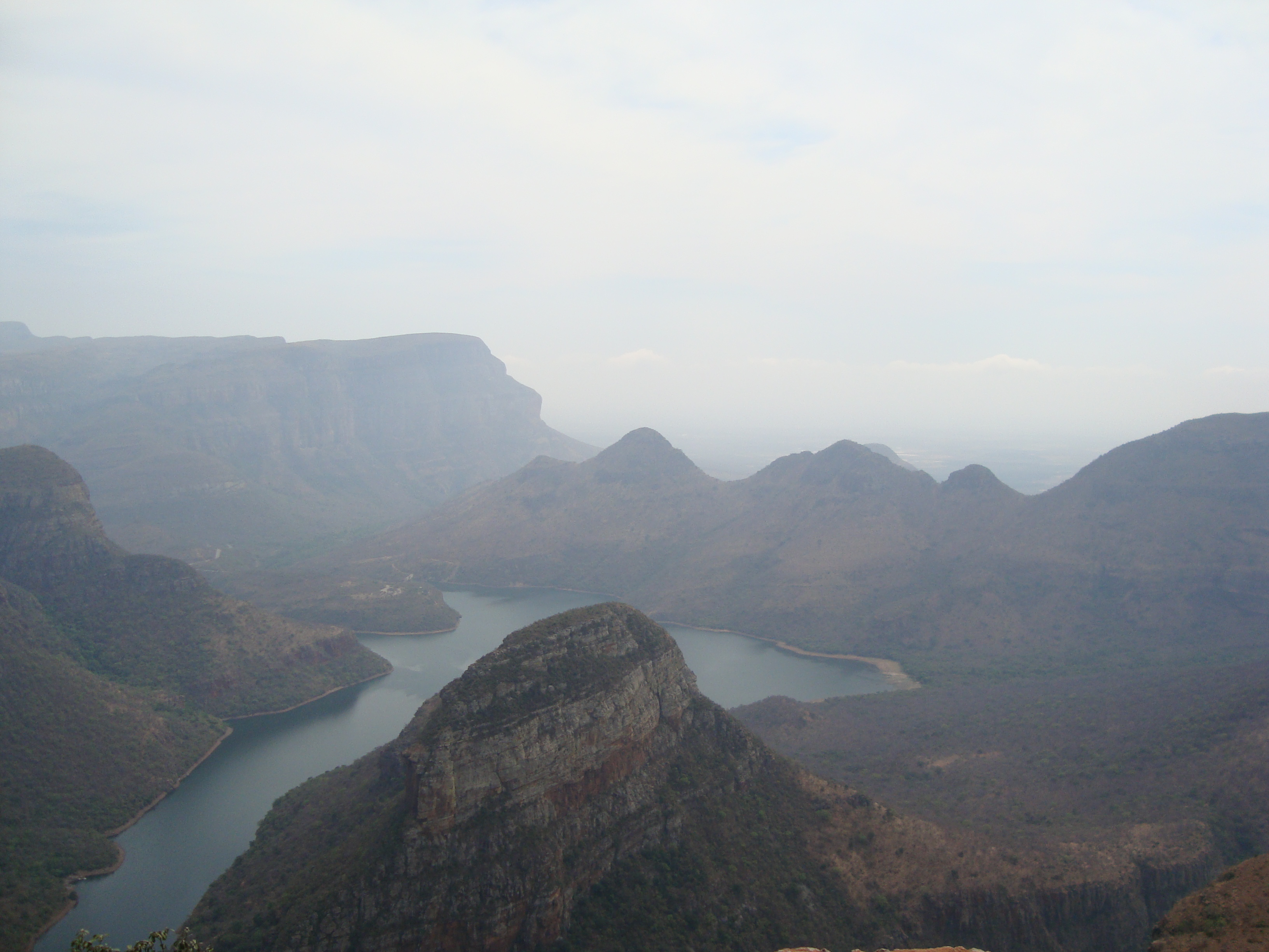 Blyde River, South Africa